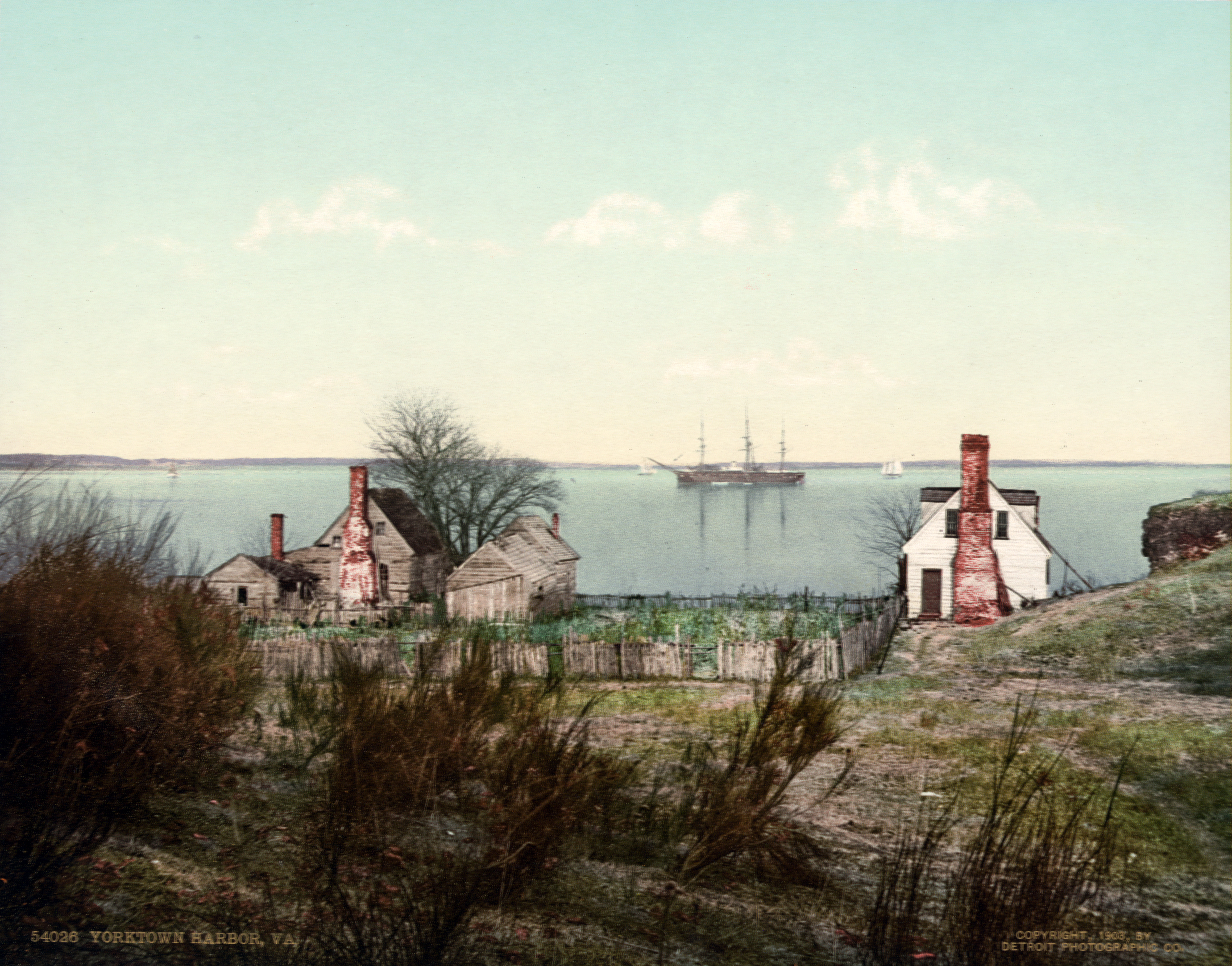 Yorktown harbor, Virginia. Photochrom print by the Detroit Photographic Co., copyrighted 1903. Yorktown is the county seat of York County, one of the 8 original shires formed in colonial Virginia in 1634. It is most famous as the site of the surrender of General Cornwallis to General George Washington in 1781. Although the war would last for another year, this British defeat at Yorktown did effectively end the American Revolutionary War. Yorktown also figured prominently in the American Civil War, serving as a major port to supply both northern and southern towns, depending upon who held Yorktown at the time. From the Photochrom Prints Collection at the Library of Congress More photochroms from the Old South & the United States | More photochrom prints [PD] This picture is in the public domain